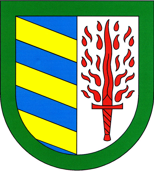 Municipal coat of arms of Obora village, Plzeň-North District, Czech Republic.